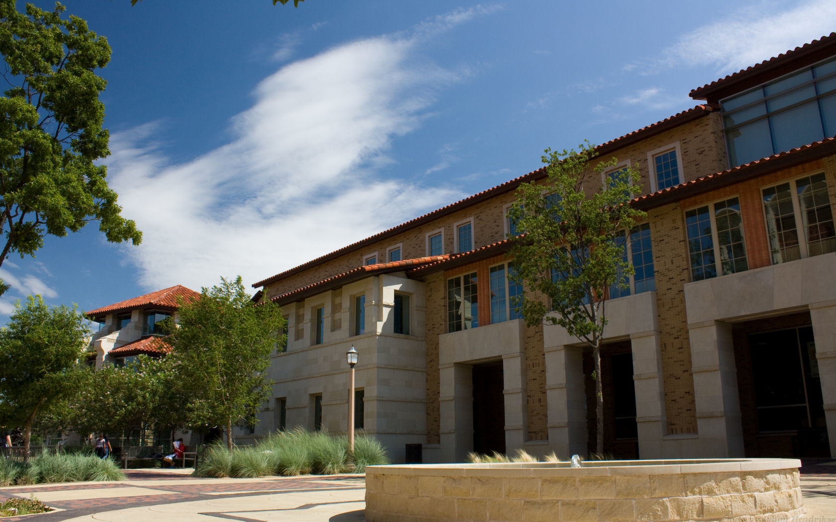 Student Union building at Texas Tech University in Lubbock, Texas.